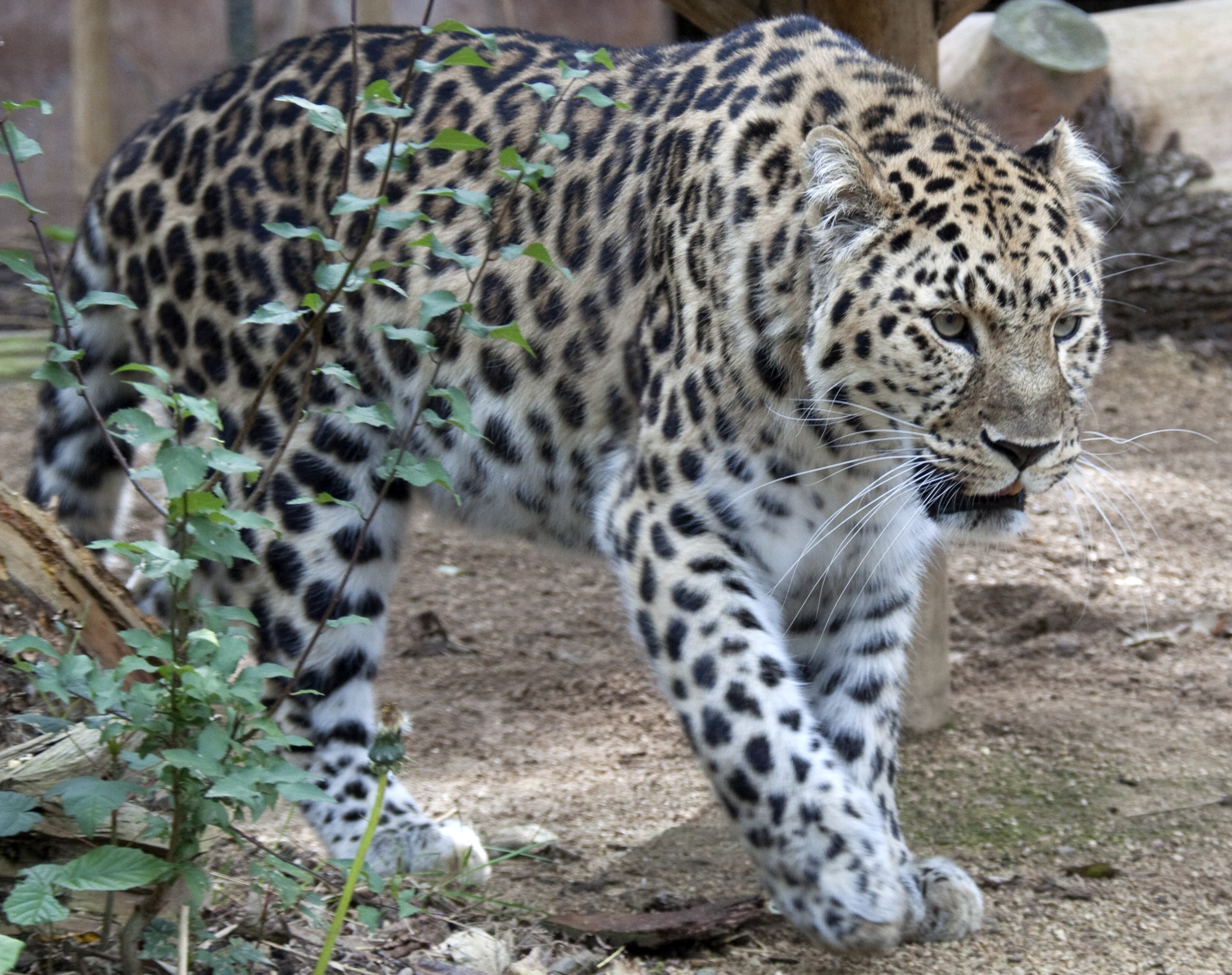 The Amur leopard (Panthera pardus orientalis), also known as the Manchurian leopard. It is critically endangered, with maybe less than 30 individuals left in the wild.